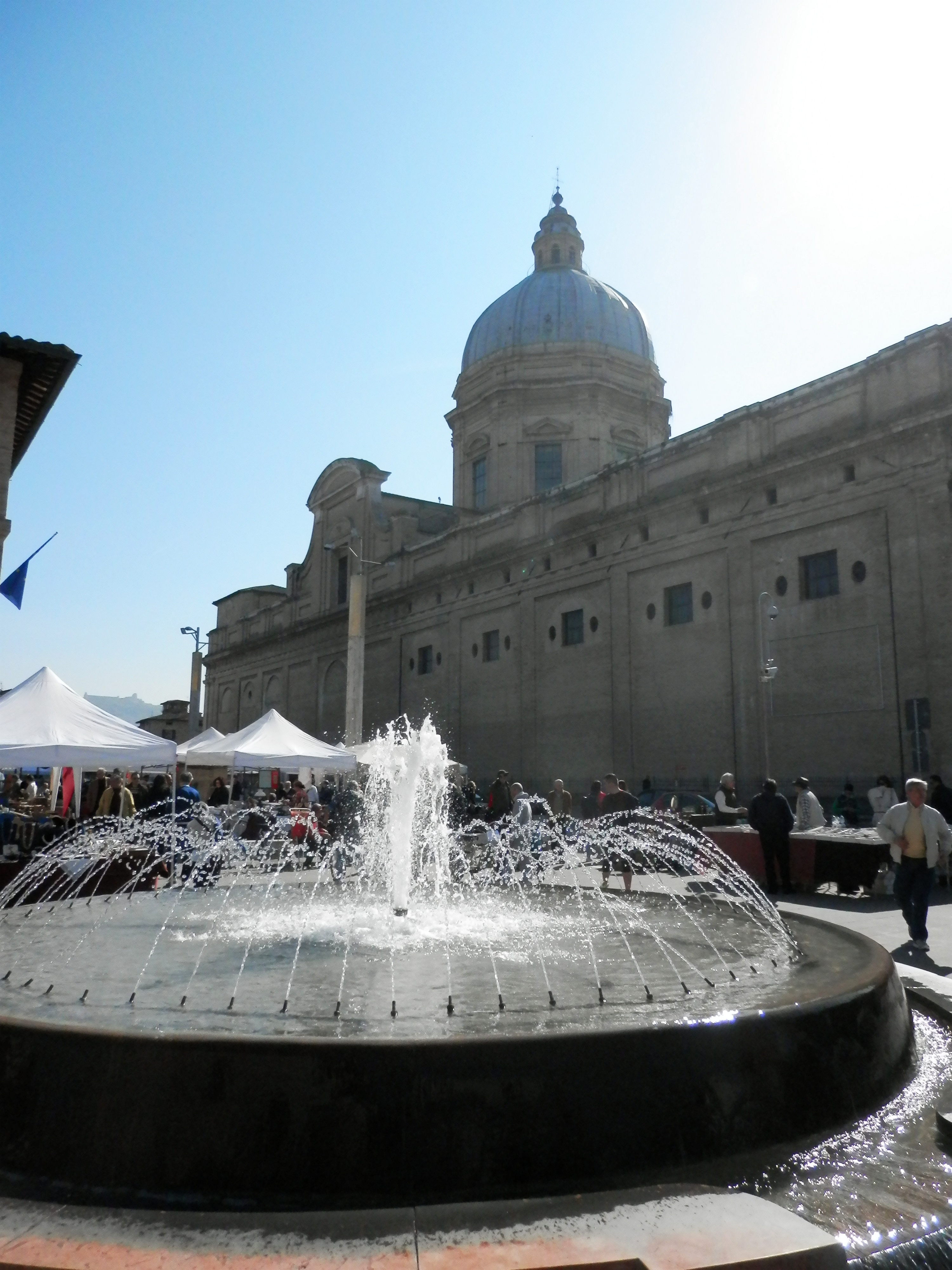 The Basilica of Saint Mary of the Angels (Santa Maria degli Angeli), situated at the foot of the hill of Assisi, Italy